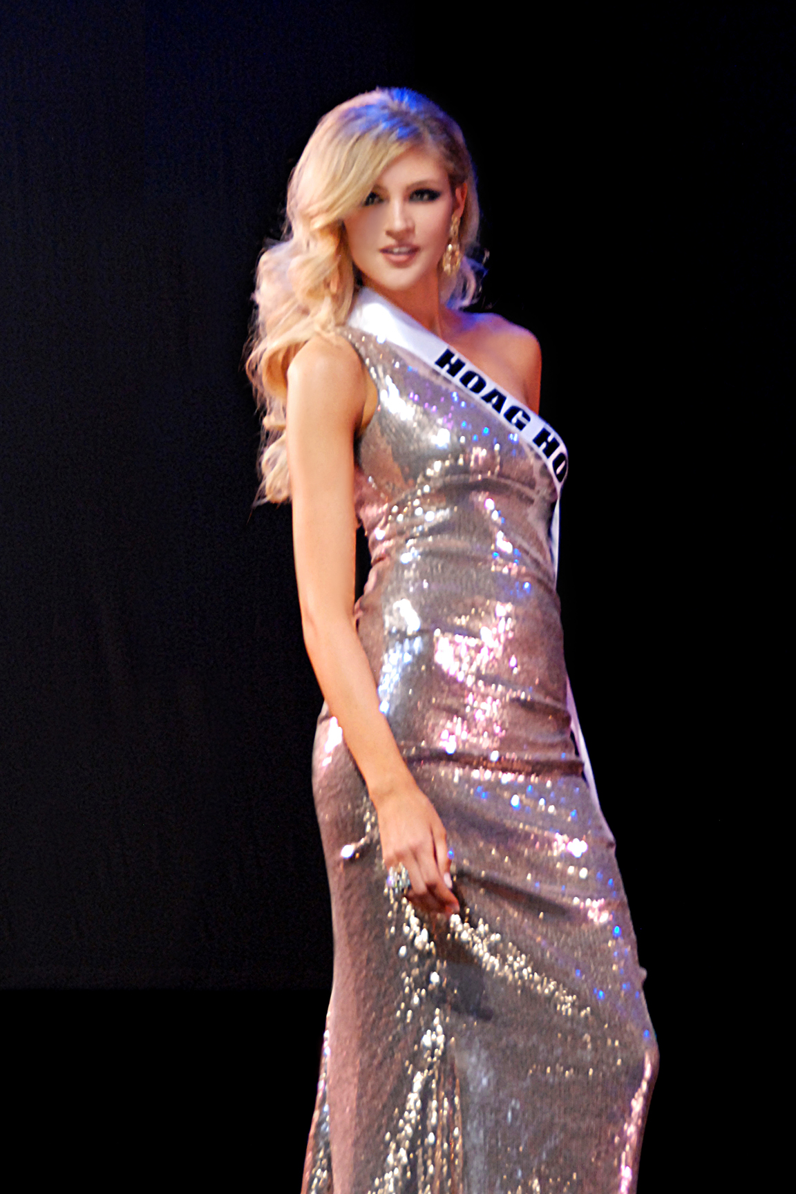 Natalie Pack, Palm Desert, CA on January 7, 2012 - Phoo by Glenn Francis of